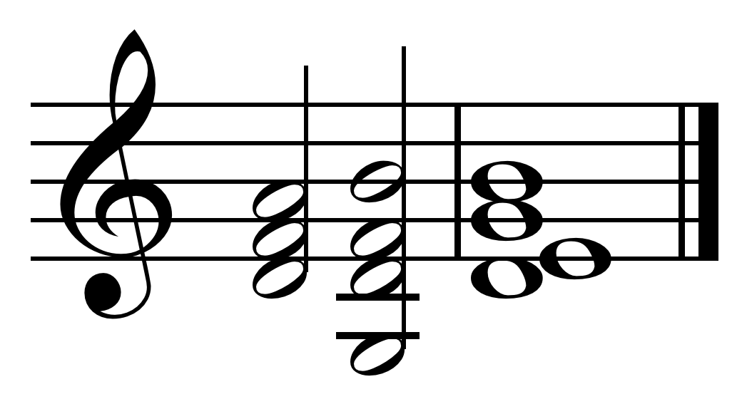 iii7 as tonic substitute Created by Hyacinth (talk) 06:45, 14 December 2010 using Sibelius 5.